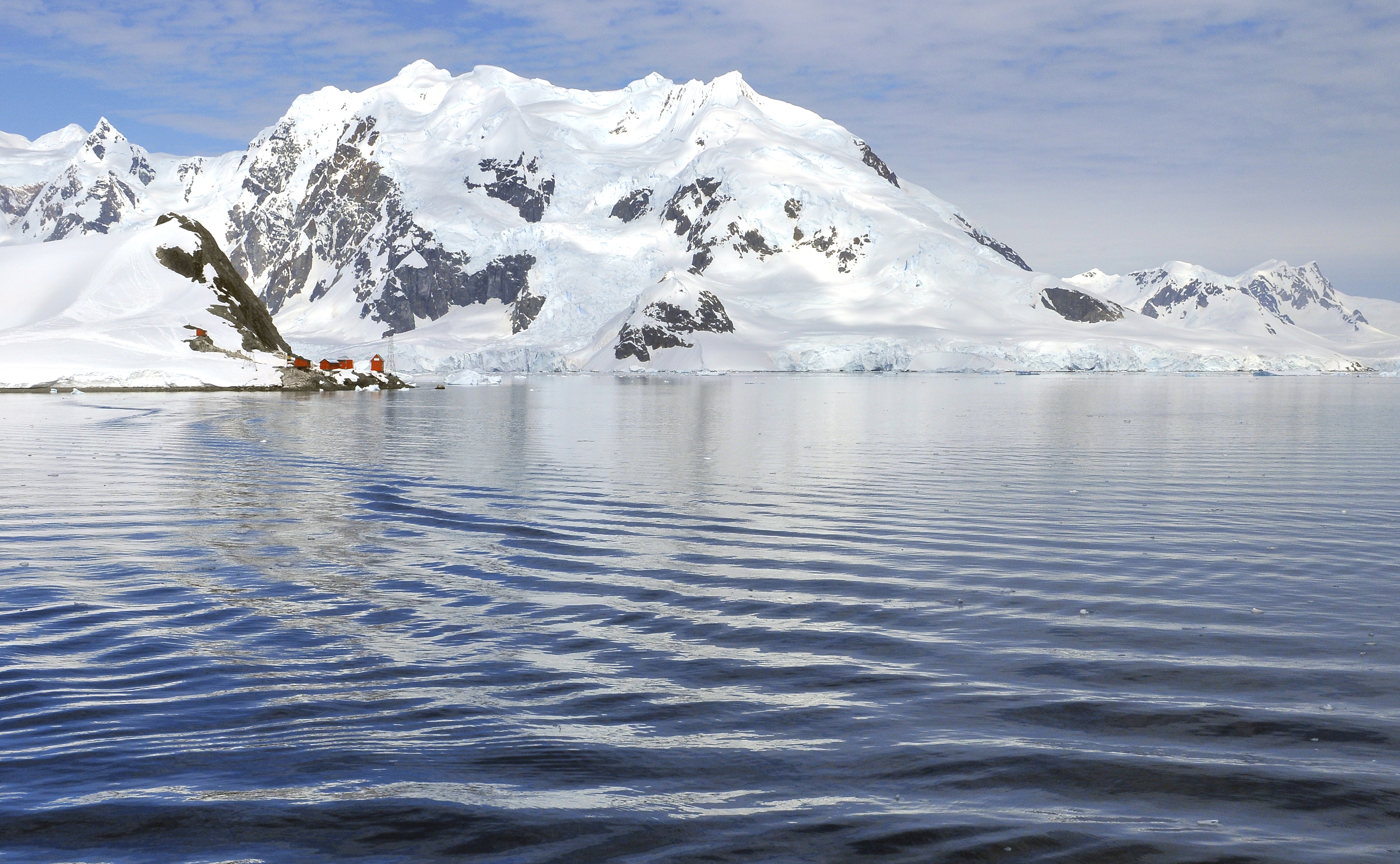 Paradise Bay ( = Paradise Harbor); on the background , the "Almirante Brown" argentinian station, Antarctica